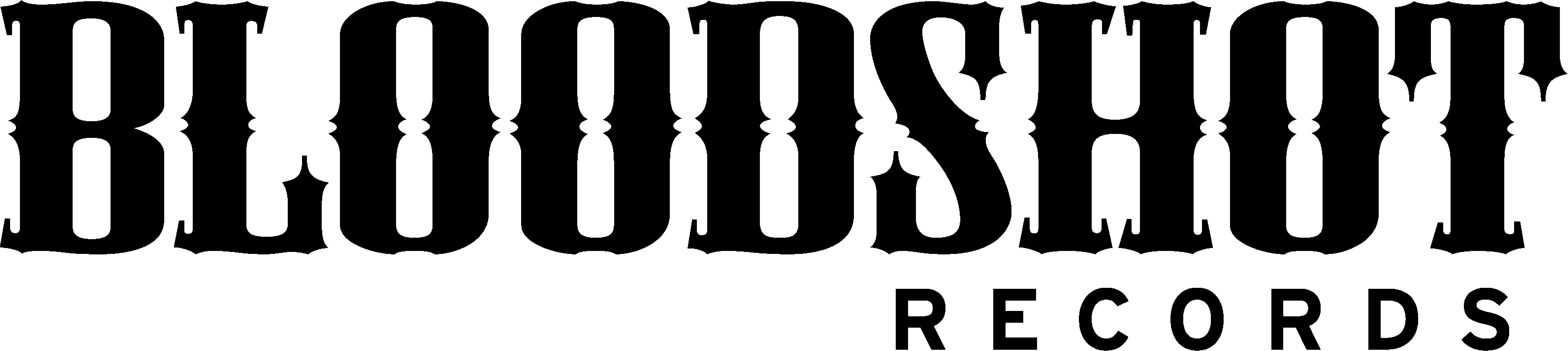 Bloodshot Records logo (vector version)